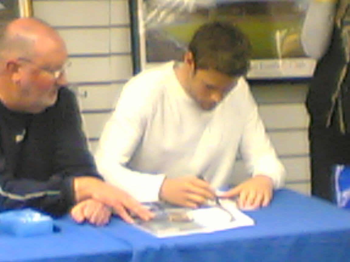 James Beattie signing an autograph